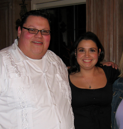 An Otoe-Missouria brother and sister, Oklahoma, 2007